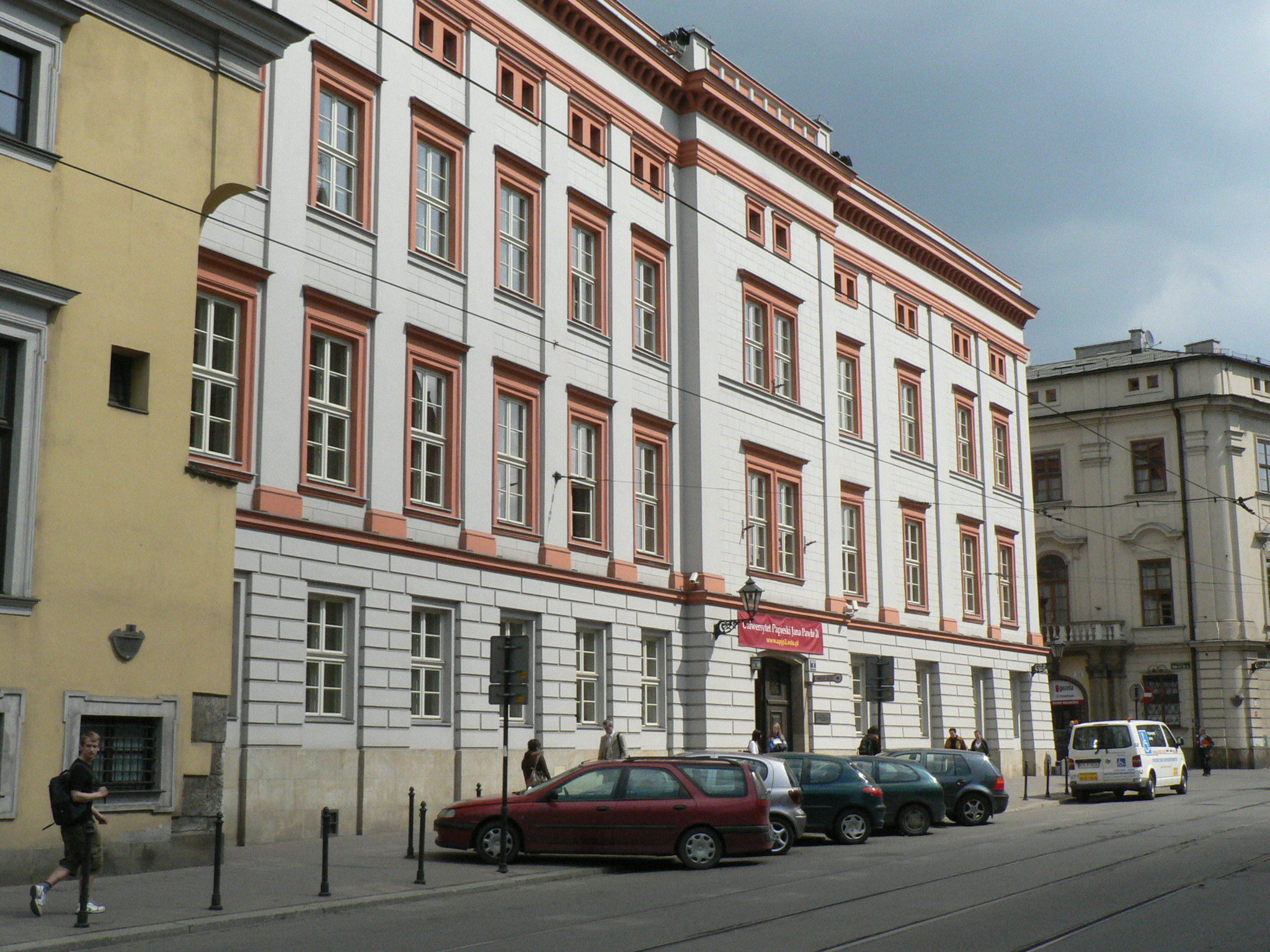 The Pontifical University of John Paul II in Cracow